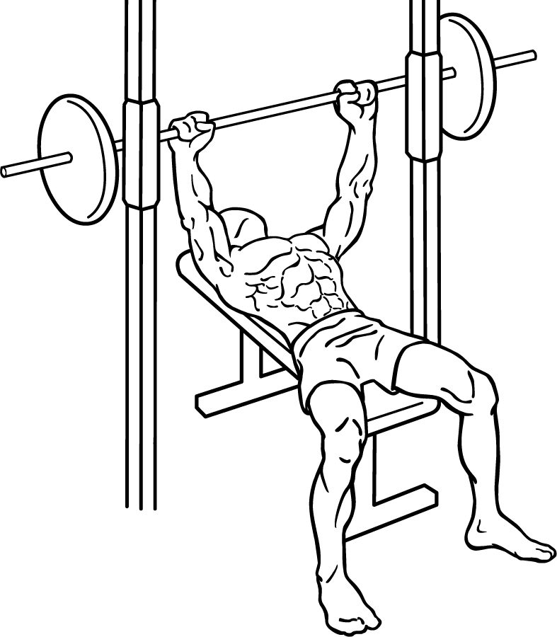 an exercise of chests